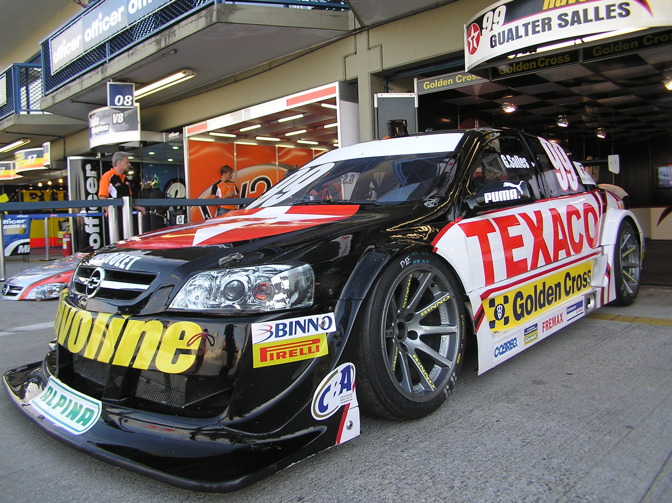 Stock Car V8 Brasil: Chevrolet Astra #99 Vogel Motorsport, the car of Gualter Salles.